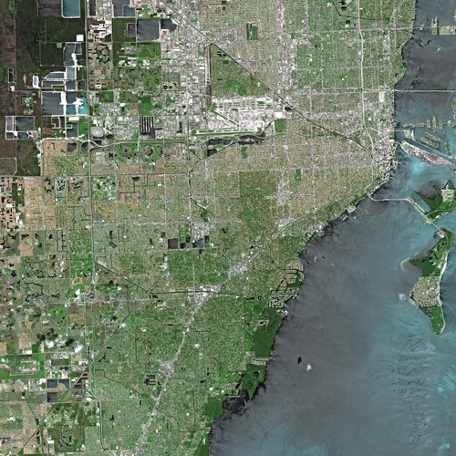 Miami by SPOT Satellite